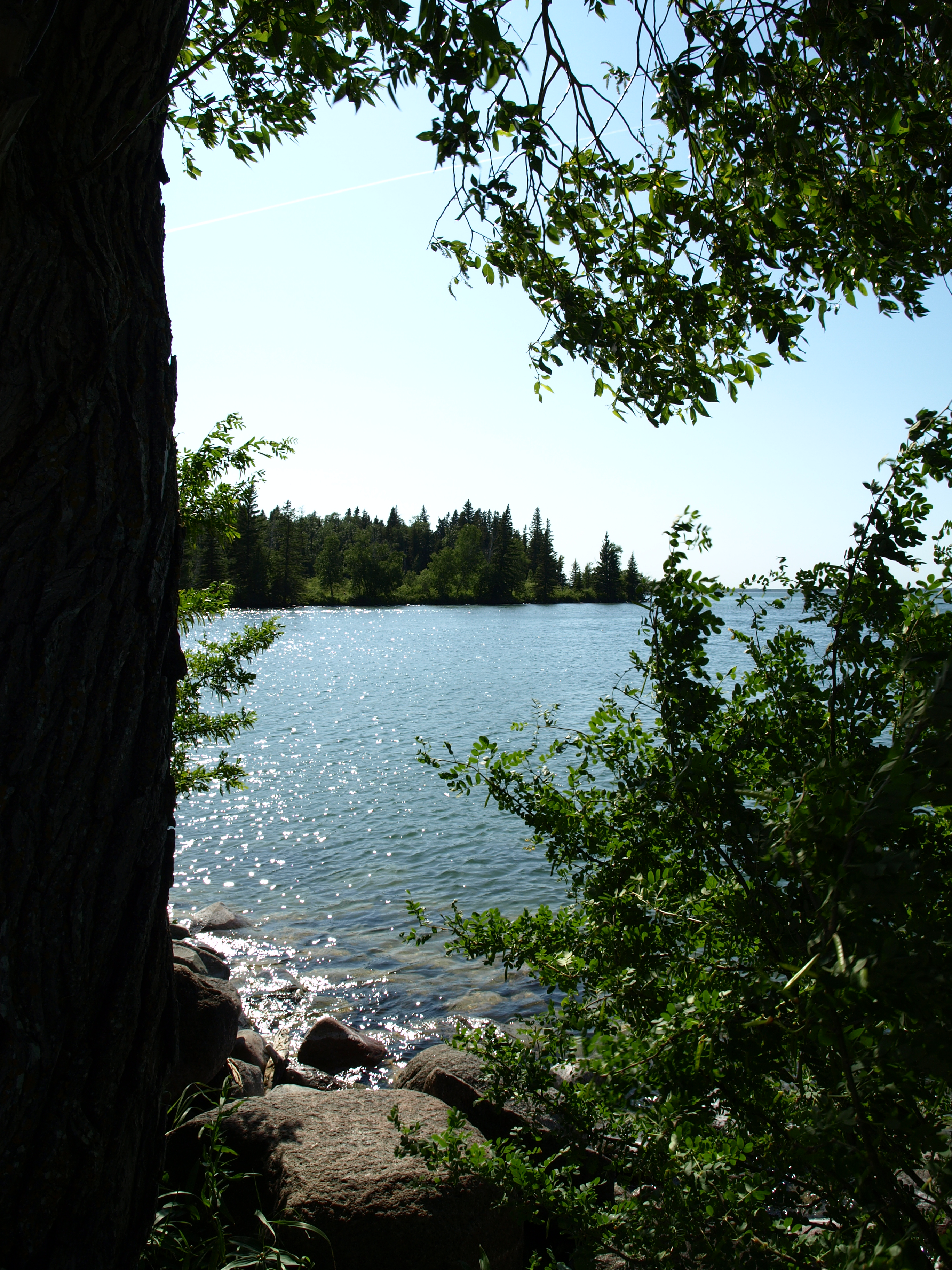 Clear Lake Riding Mountain National Park Manitoba Canada